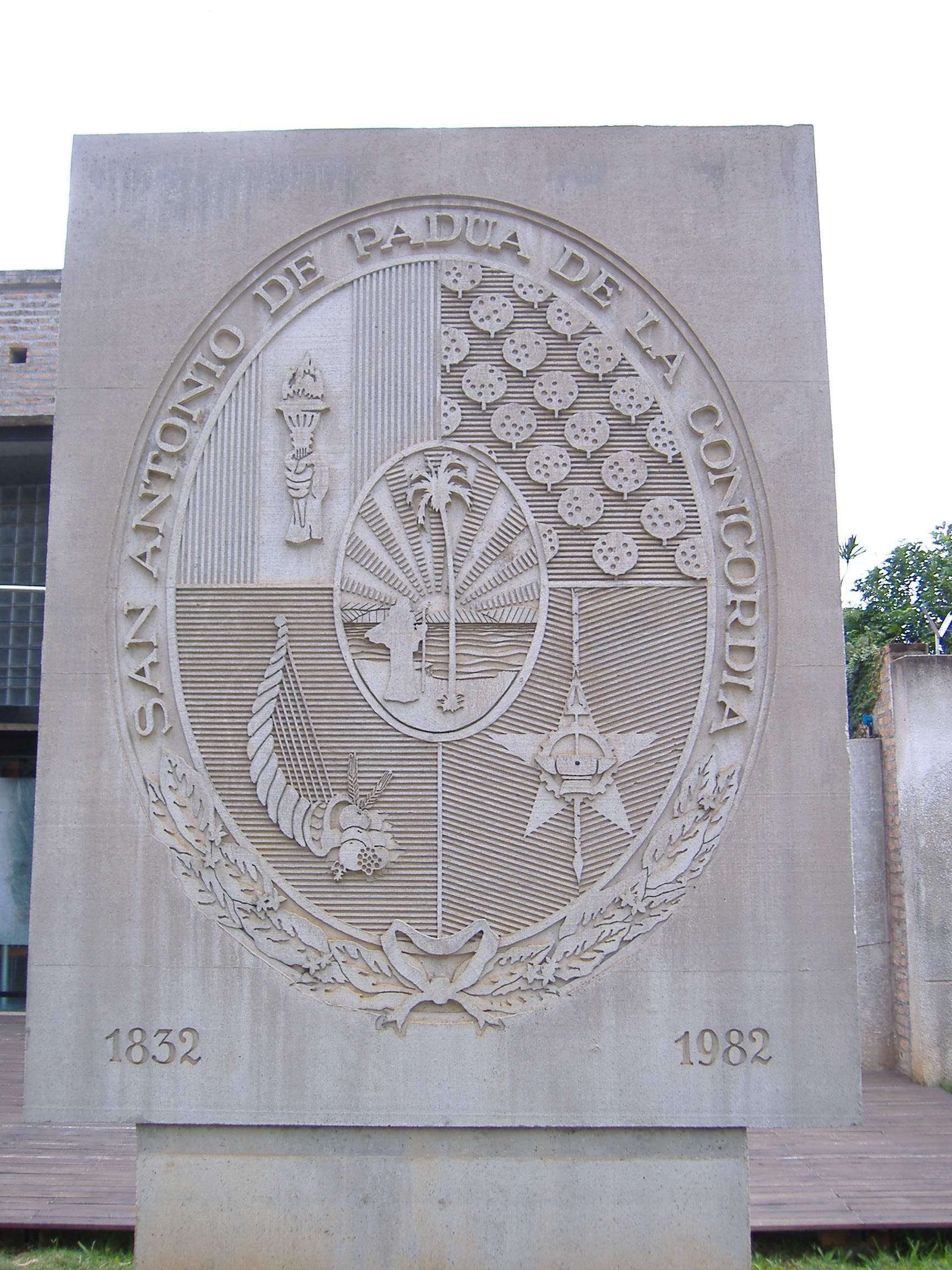 The coat of arms of the city of Concordia (full name: "San Antonio de Padua de la Concordia"), Entre Ríos Province, Argentina.